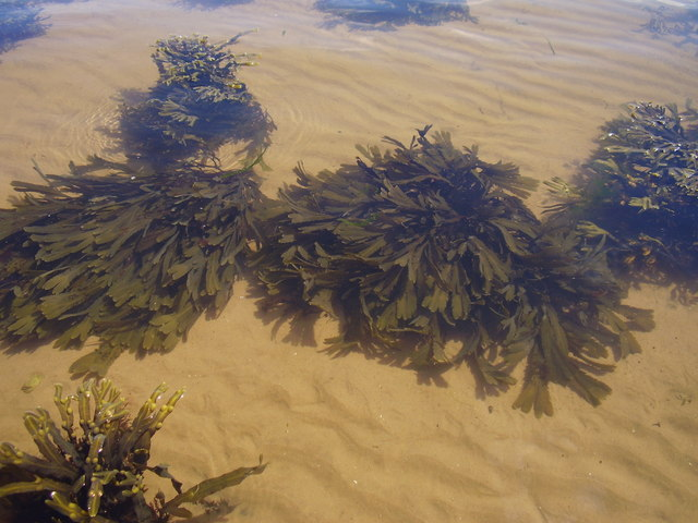 Bladder wrack (Fucus vesiculosus) and Toothed wrack (Fucus serratus), Whiting Bay sea weed at low water.